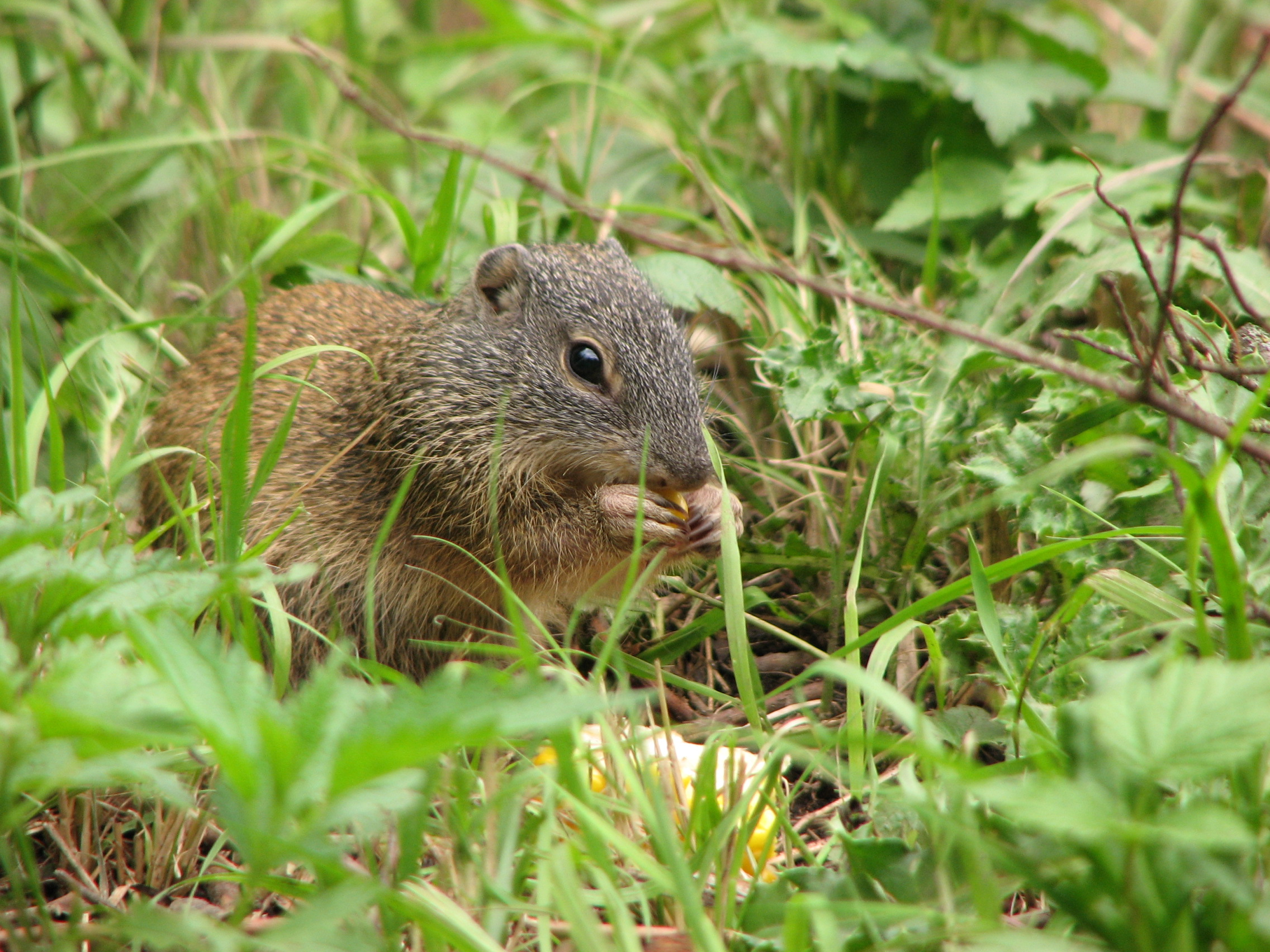 A Franklin's Ground Squirrel (Spermophilus franklinii), in Sir Winston Churchill Provincial Park, Lac La Biche, Alberta, Canada. Photo by Alberto Cea taken July 19 2008 with a Cannon S3 IS.